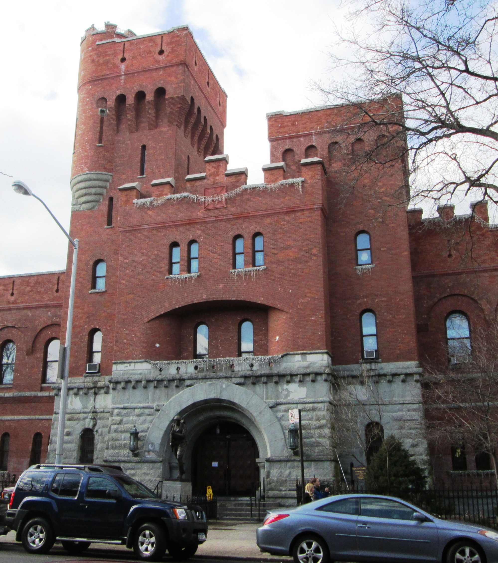 The 14th Regiment Armory at 1402 Eighth Avenue between 14th and 15th Streets in the South Slope neighborhood of Brooklyn, New York City was built in 1891-95 and was designed by Walter A. Mundell. The statue of a World War I doughboy in front by Anton Scaaf dates from 1923. The building was designated a NYC landmark in 1998. (Sources: AIA Guide to NYC (5th ed.) and Guide to NYC Landmarks (4th ed.))